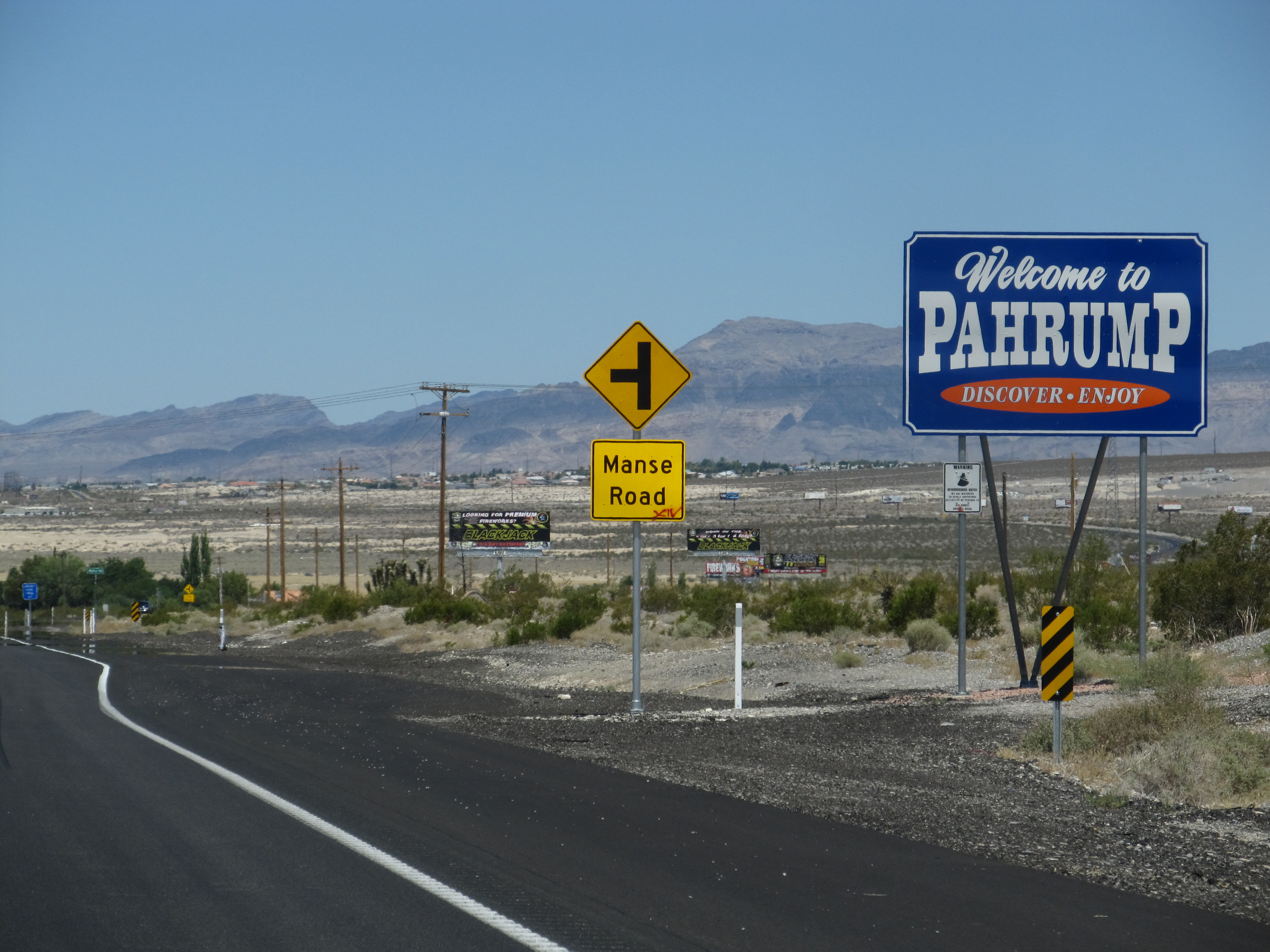 Pahrump is a census-designated place (CDP) and an unincorporated town in Nye County, Nevada, United States. The population was 36,441 as of 2010, making it by far the largest settlement in the county.